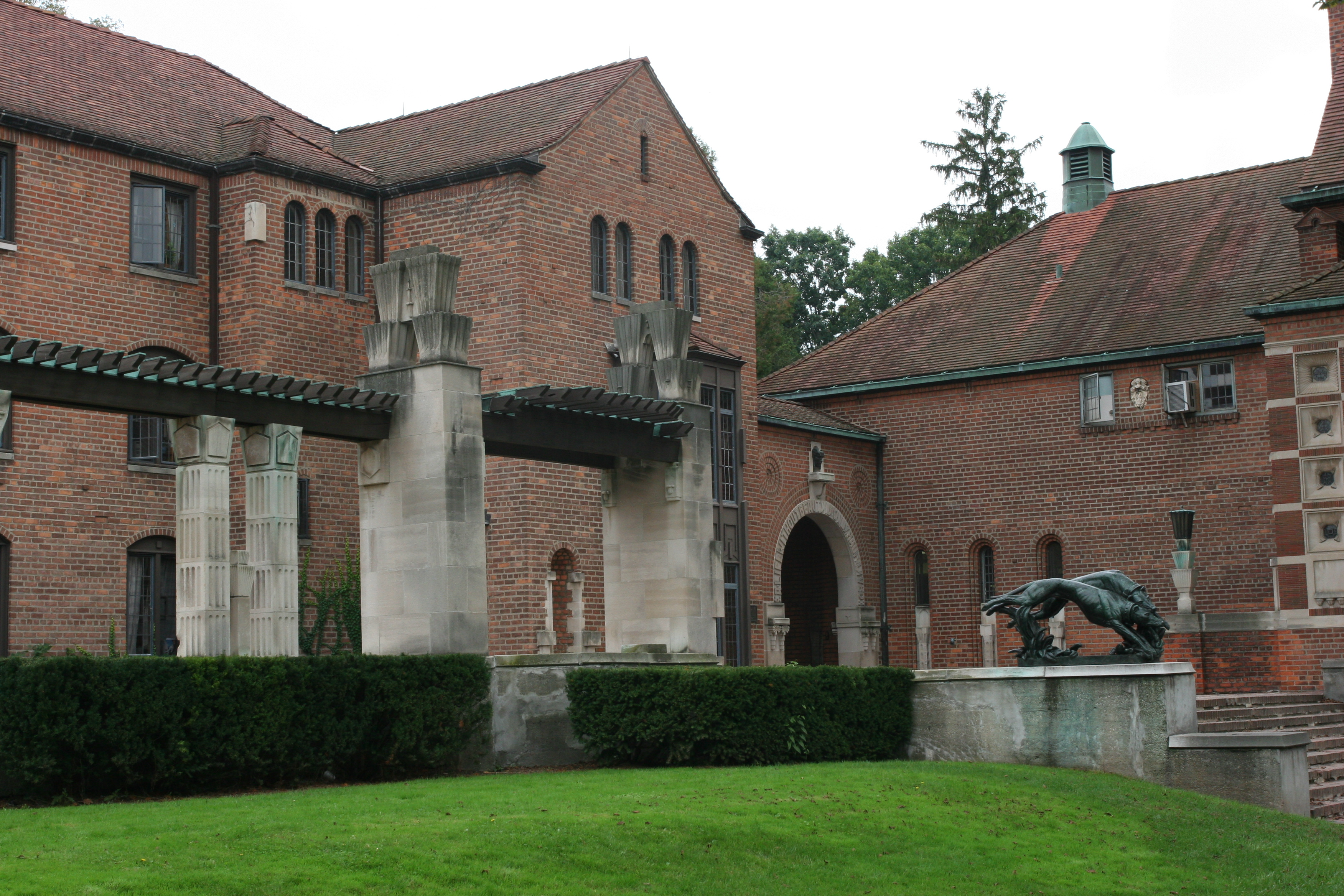 Cranbrook Academy Grounds